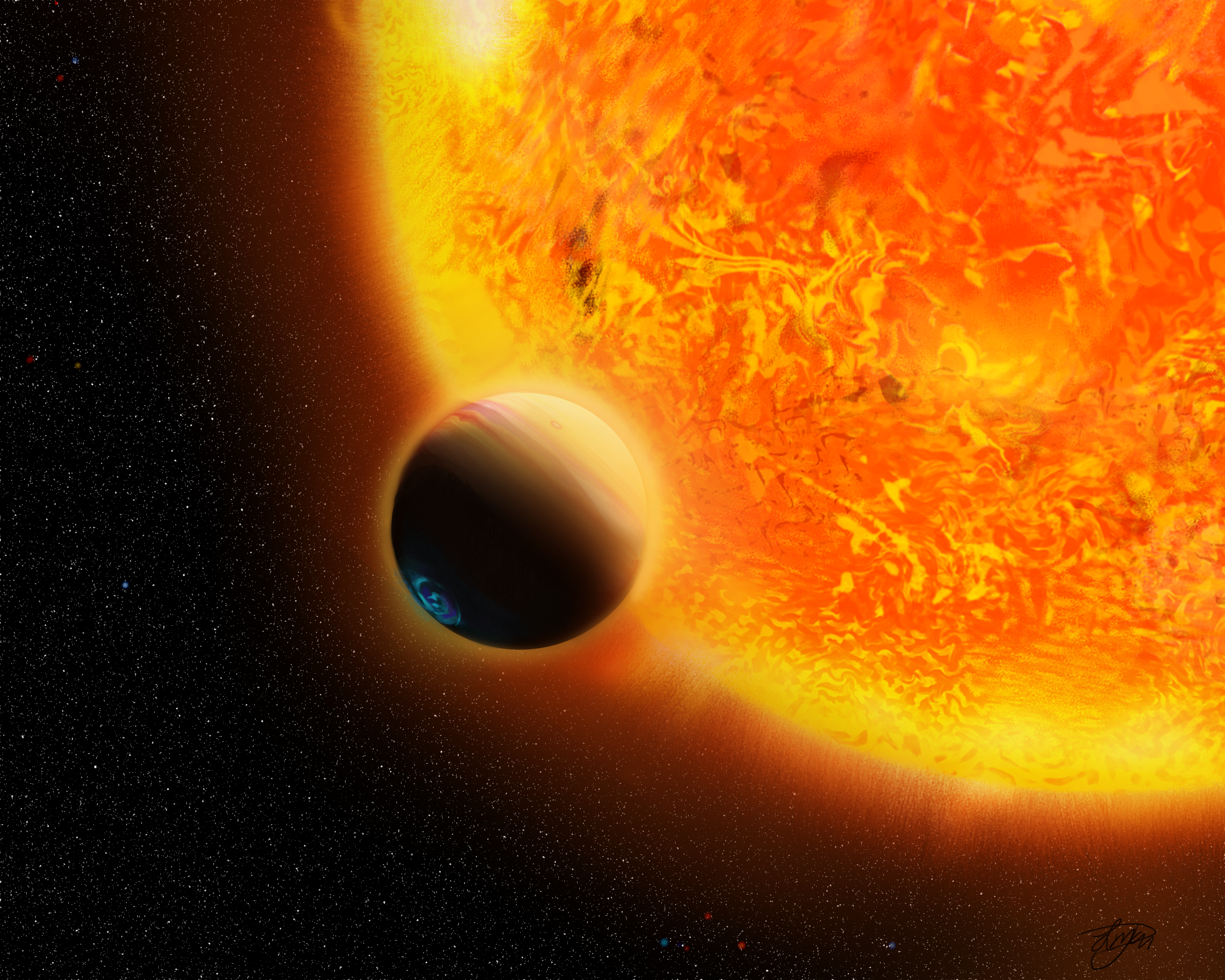 Hot gas planet with a visible blue aurora on one side